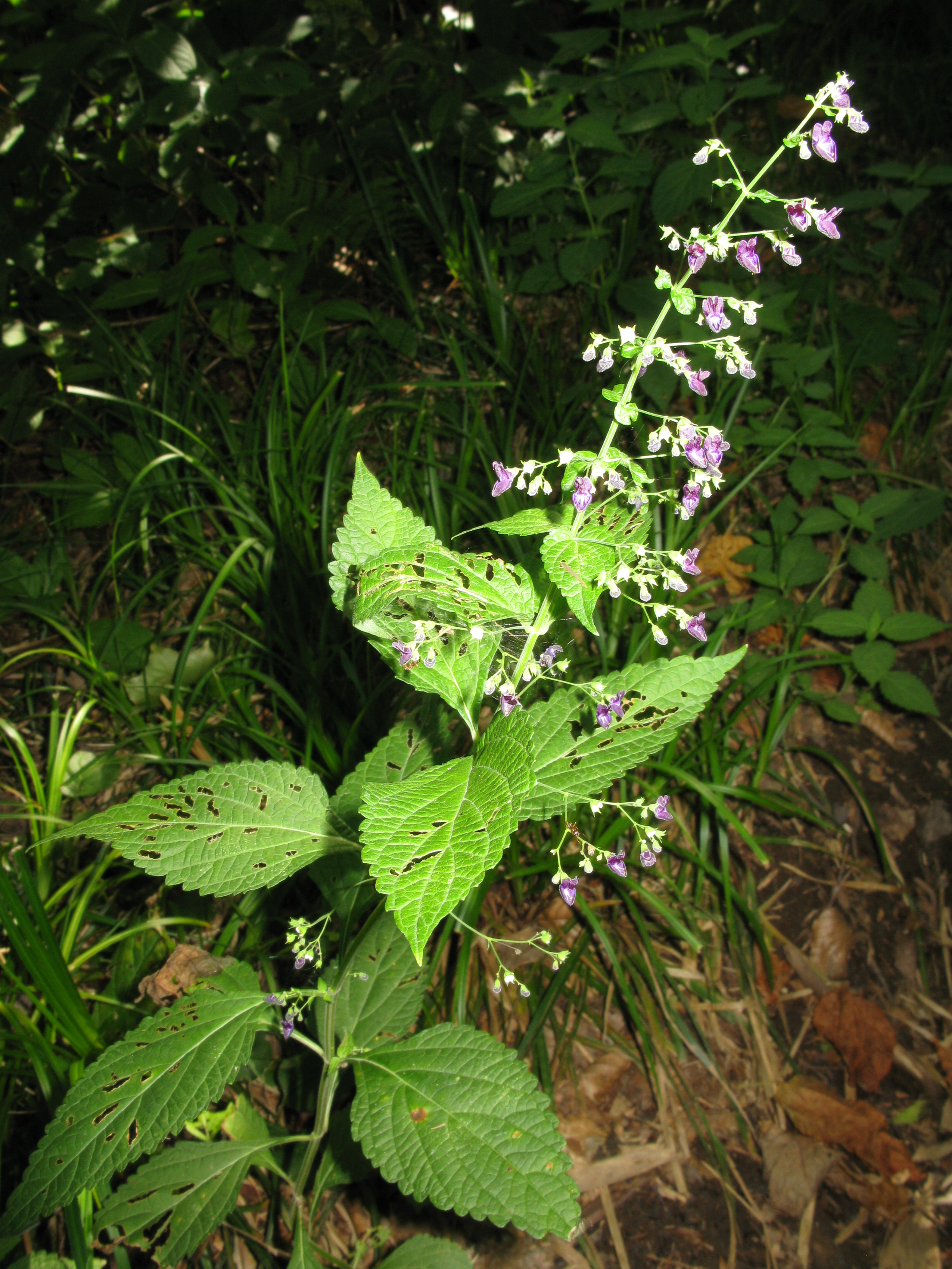 Isodon trichocarpus, Mount Mikagura-dake, Niigata pref., Japan